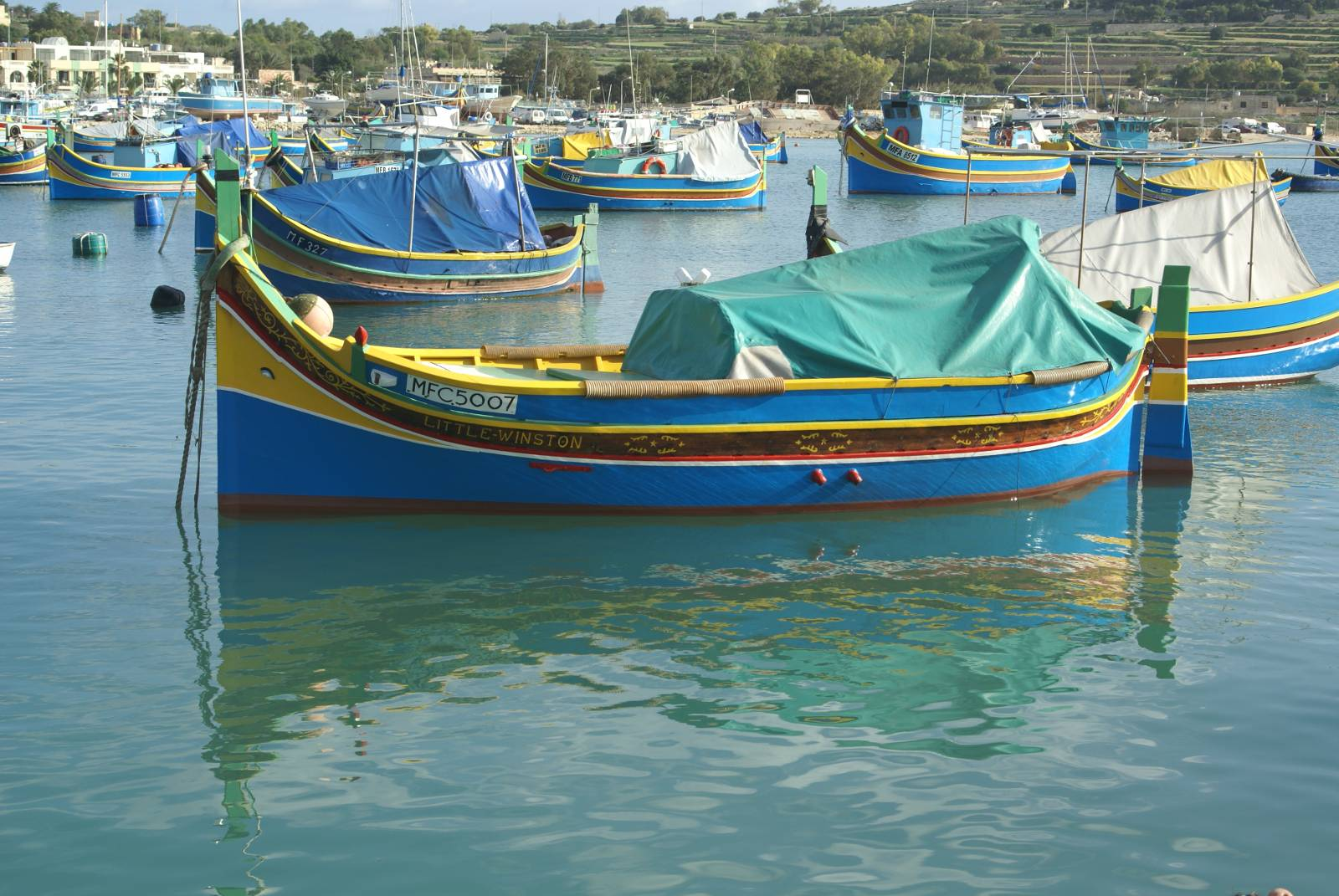 Small, colourful fishing boats at Marsaxlokk, Malta